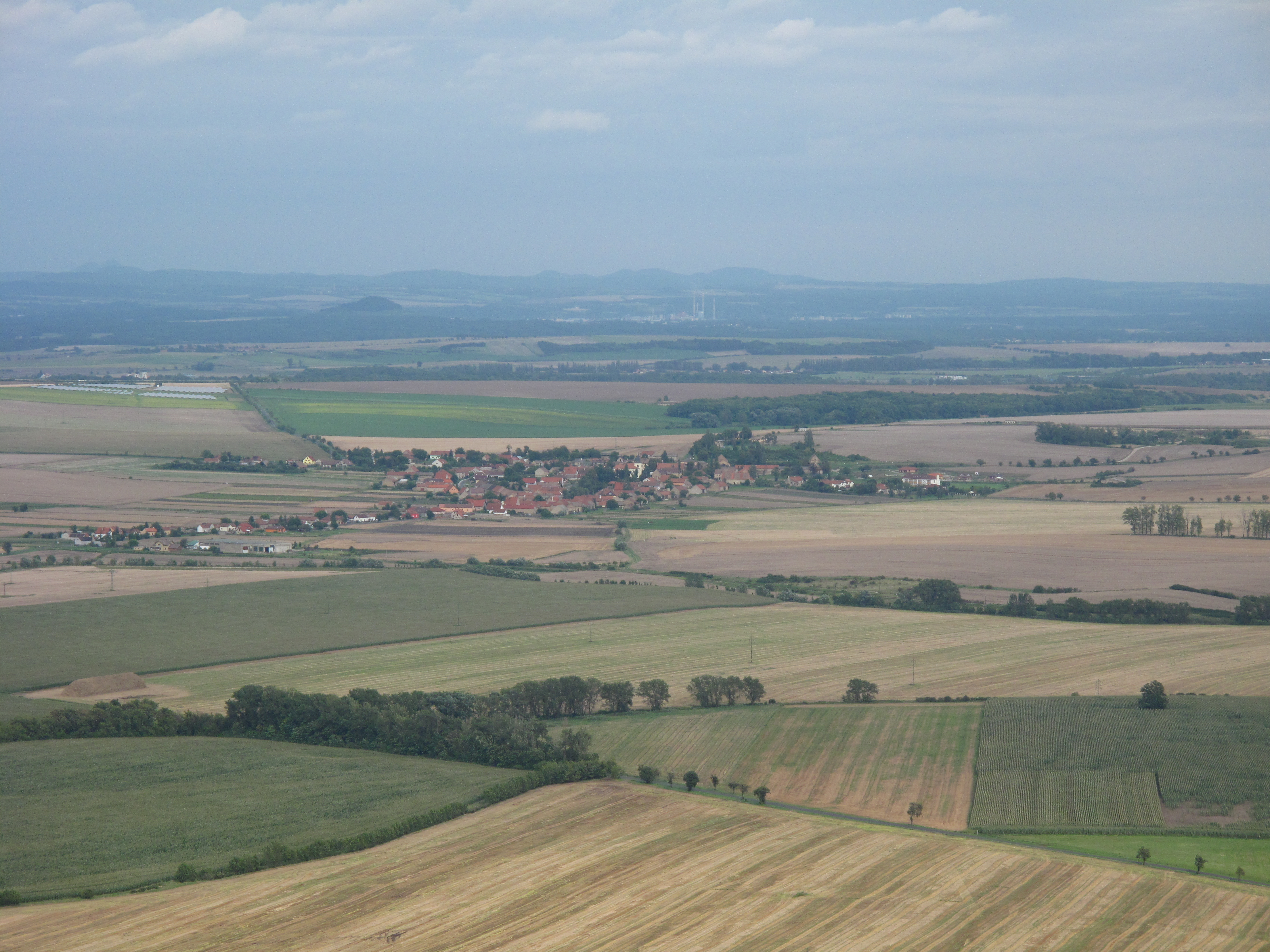 Chotěšov village as seen from Hazmburk Castle (ruin), Litoměřice District, Czech Republic.